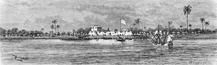 View of Saint-Louis in 1720